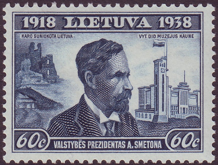 Stamp of Lithuania; 1939; commemorative issue to the 20th anniversary of the Republic of Lithuania Stamp: Michel: No. 428 (LT); Yvert & Tellier: No. 369 (LT); AFA: No. 429 (LT) Color: dark blue Watermark: none Nominal value: 60 C. (Centų) Postage validity: from 15 February 1939 until 20 August 1940 date QS:P,+1950-00-00T00:00:00Z/7,P580,+1939-02-15T00:00:00Z/11,P582,+1940-08-20T00:00:00Z/11